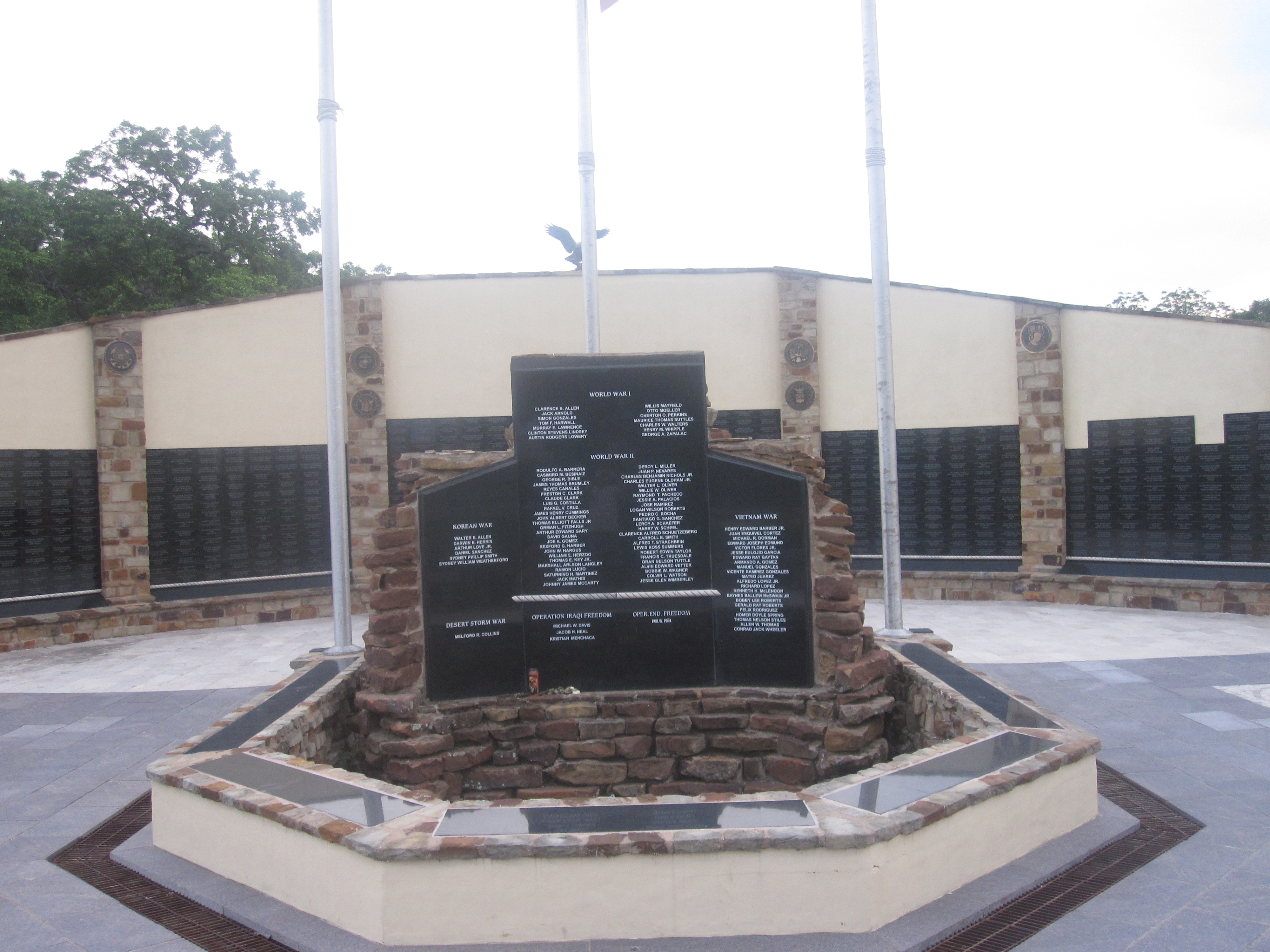 I took photo with Canon camera in San Marcos, TX.